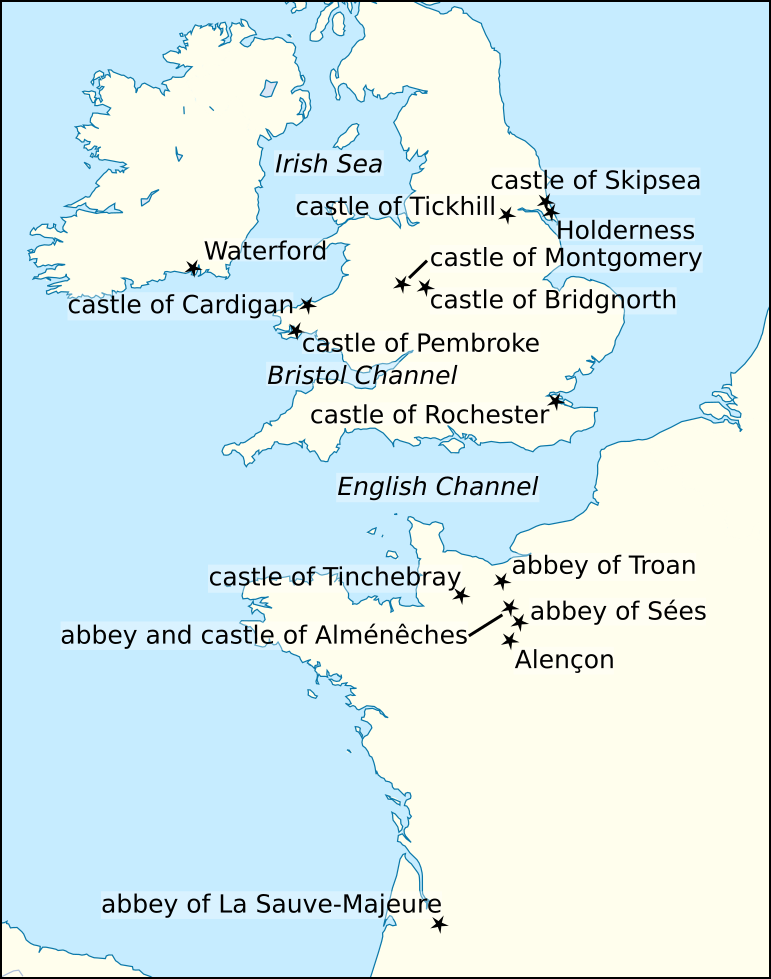 Map illustrating the locations of certain places mentioned in the Wikipedia article concerning Arnulf de Montgomery.